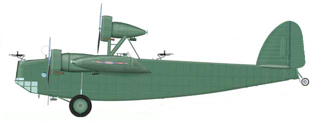 Drawing of the Dornier Do Y bomber.